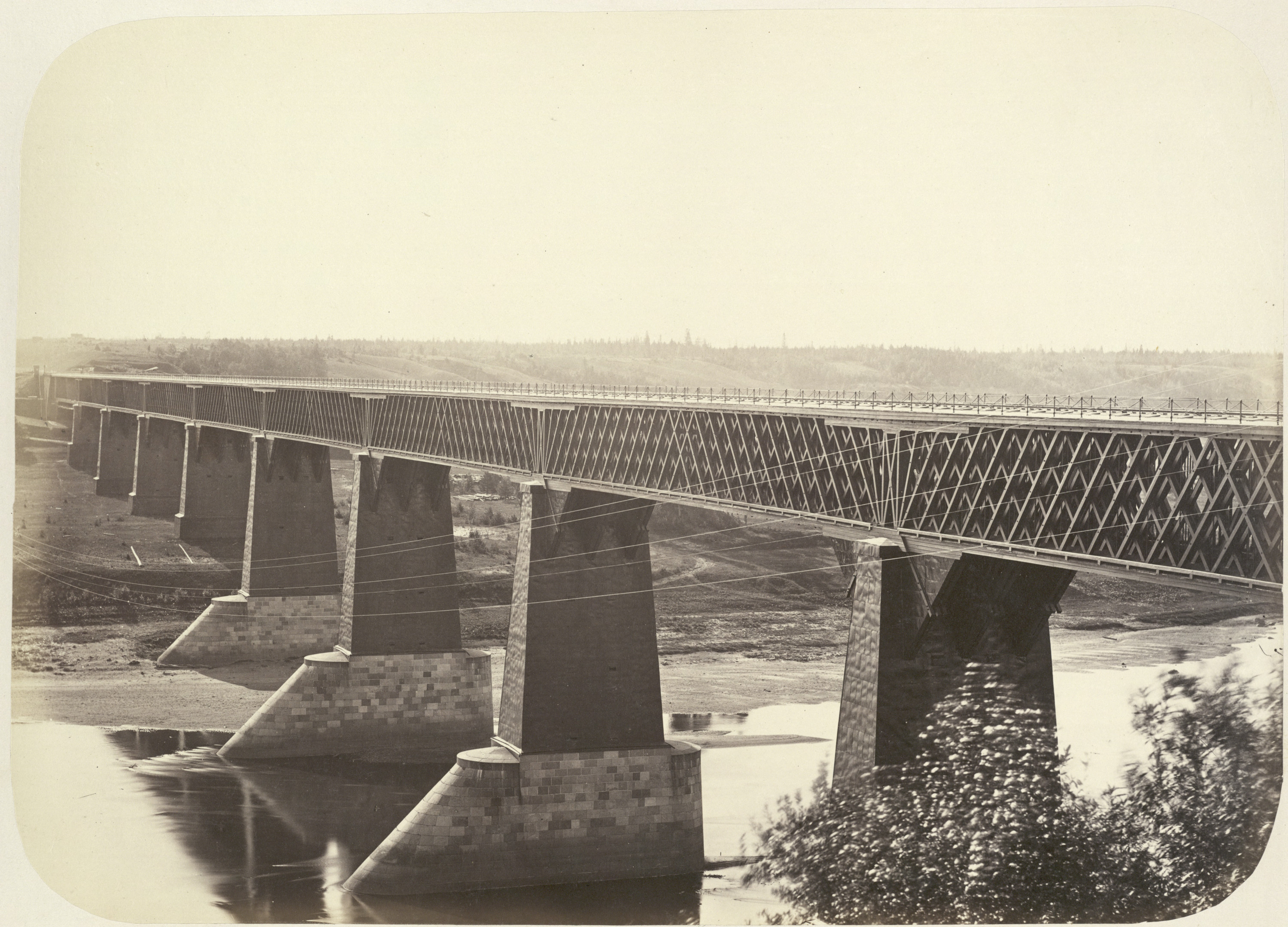 Mstinsky_bridge.